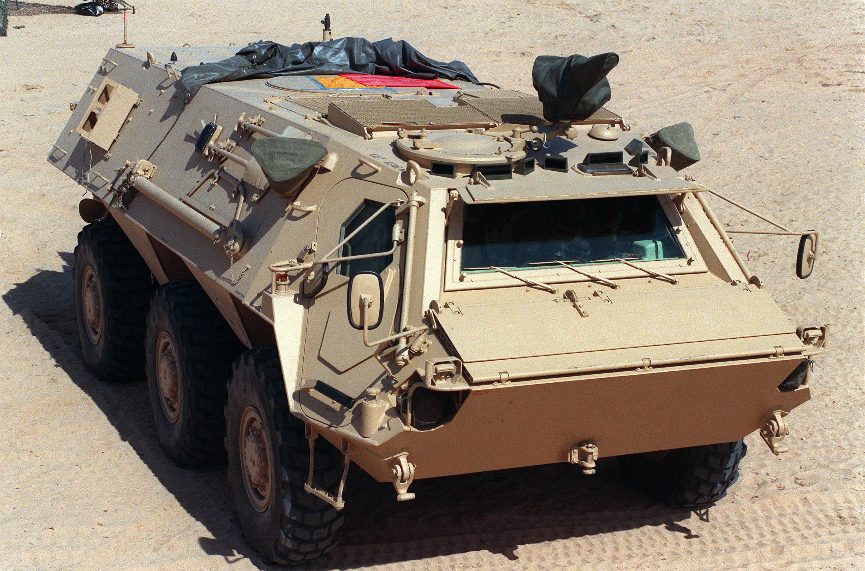 ID: DMSC9201199; Caption: "A right front view of an M-93 Fox Nuclear-Biological-Chemical (NBC) reconnaissance system deployed for Operation Desert Storm. The M-93 is a variant of the West German SPÜRPANZER FUCHS armored personnel carrier. Camera Operator: STAFF SGT. J. R. RUARK; Date Shot: 10 Feb 1991"